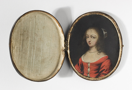 Holland, circa 1650 Paintings Leather, oil, copper, mica, silk and brass Costume Council Curatorial Discretionary Fund (M.89.98a-r) Costume and Textiles